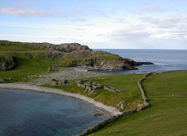 Abandoned fishing village